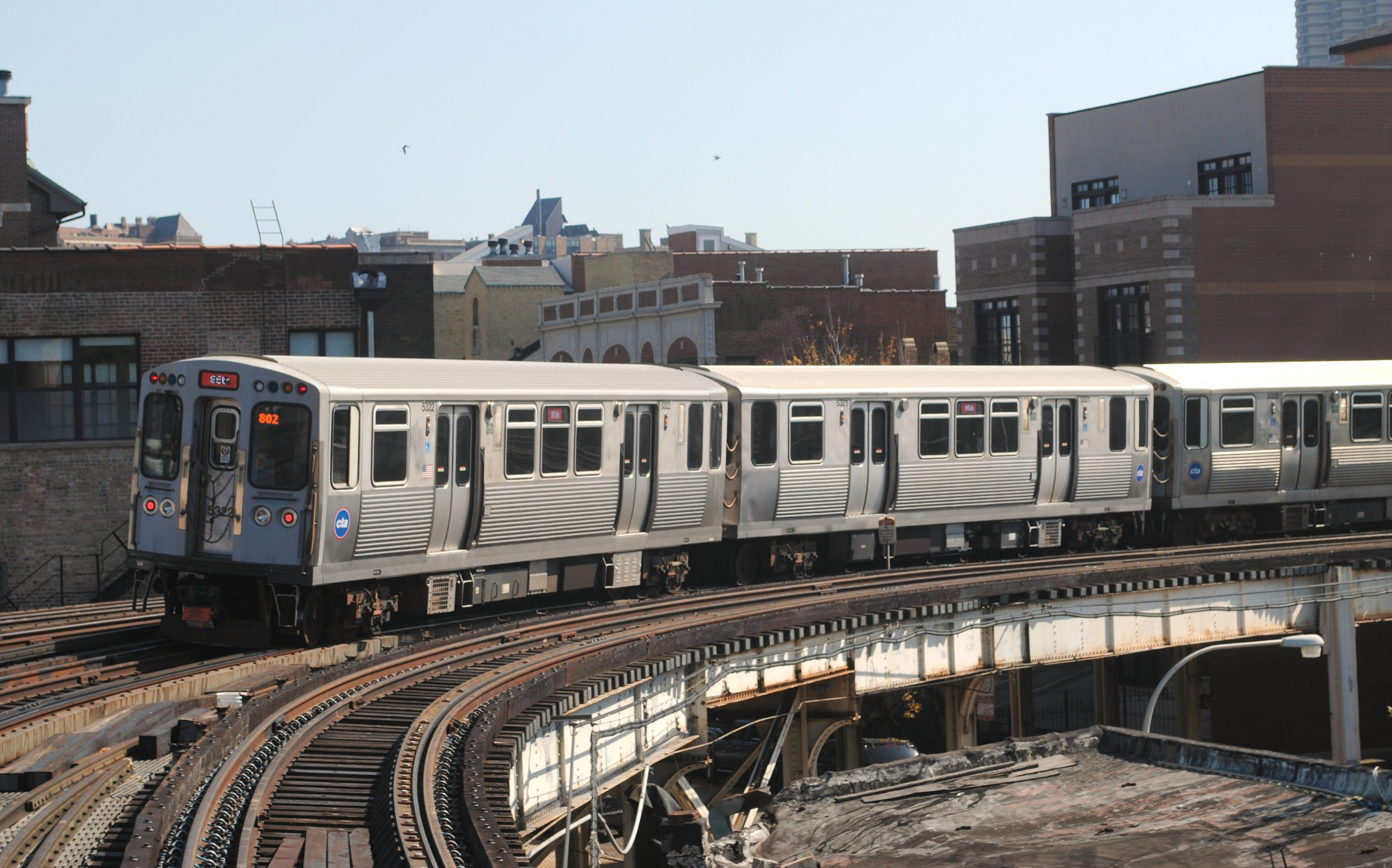 S curve, Chicago Elevated. 3940 North Sheridan Road.